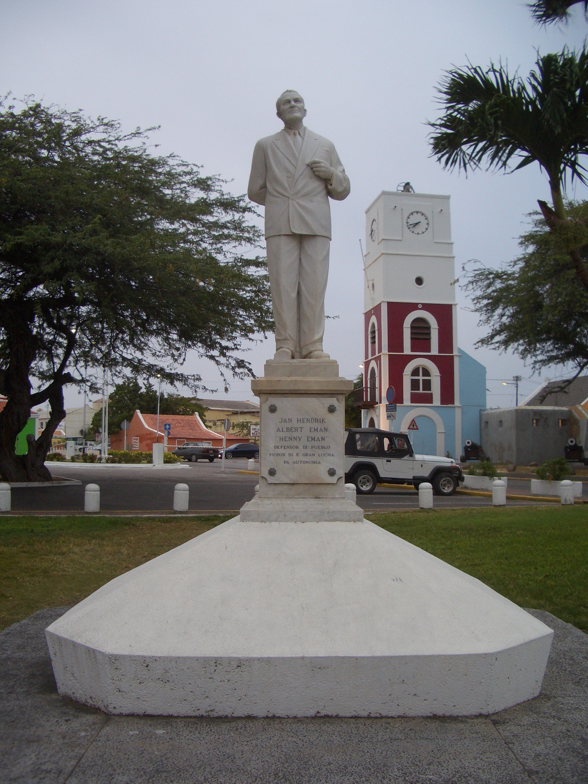 Statue of Jan Hendrik Albert "Henny" Eman in Oranjestad, Aruba next to the Parliament building. Taken by Bkell on 14 July 2006. The plaque reads: JAN HENDRIK ALBERT EMAN "HENNY EMAN" DEFENSOR DI PUEBLO PIONIR DI E GRAN LUCHA PA AUTONOMIA